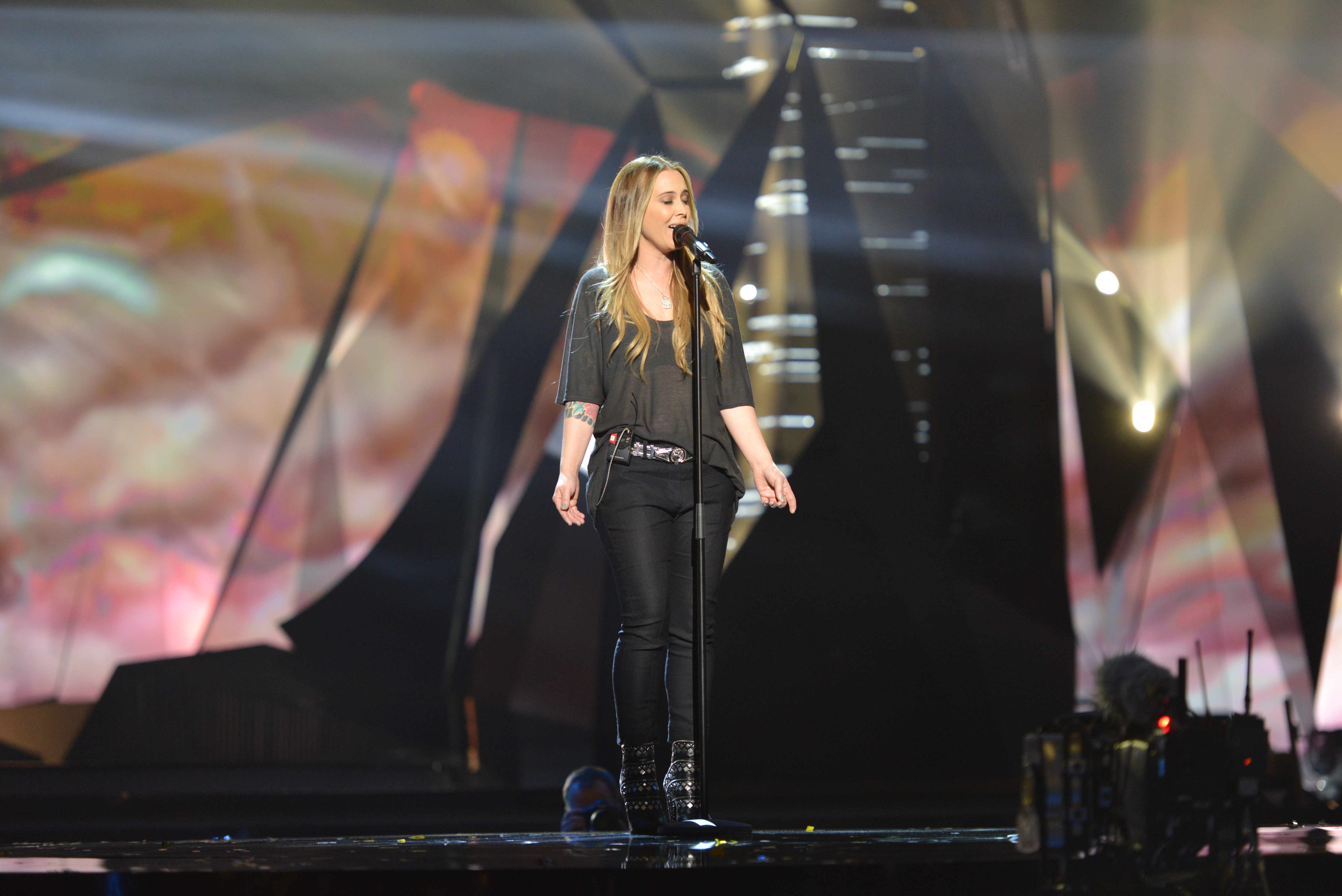 Anouk representing Netherlands with the song "Birds" during the first dress rehearsal of the first semi final of the Eurovision Song Contest 2013 in Malmö. (Help translate this text)